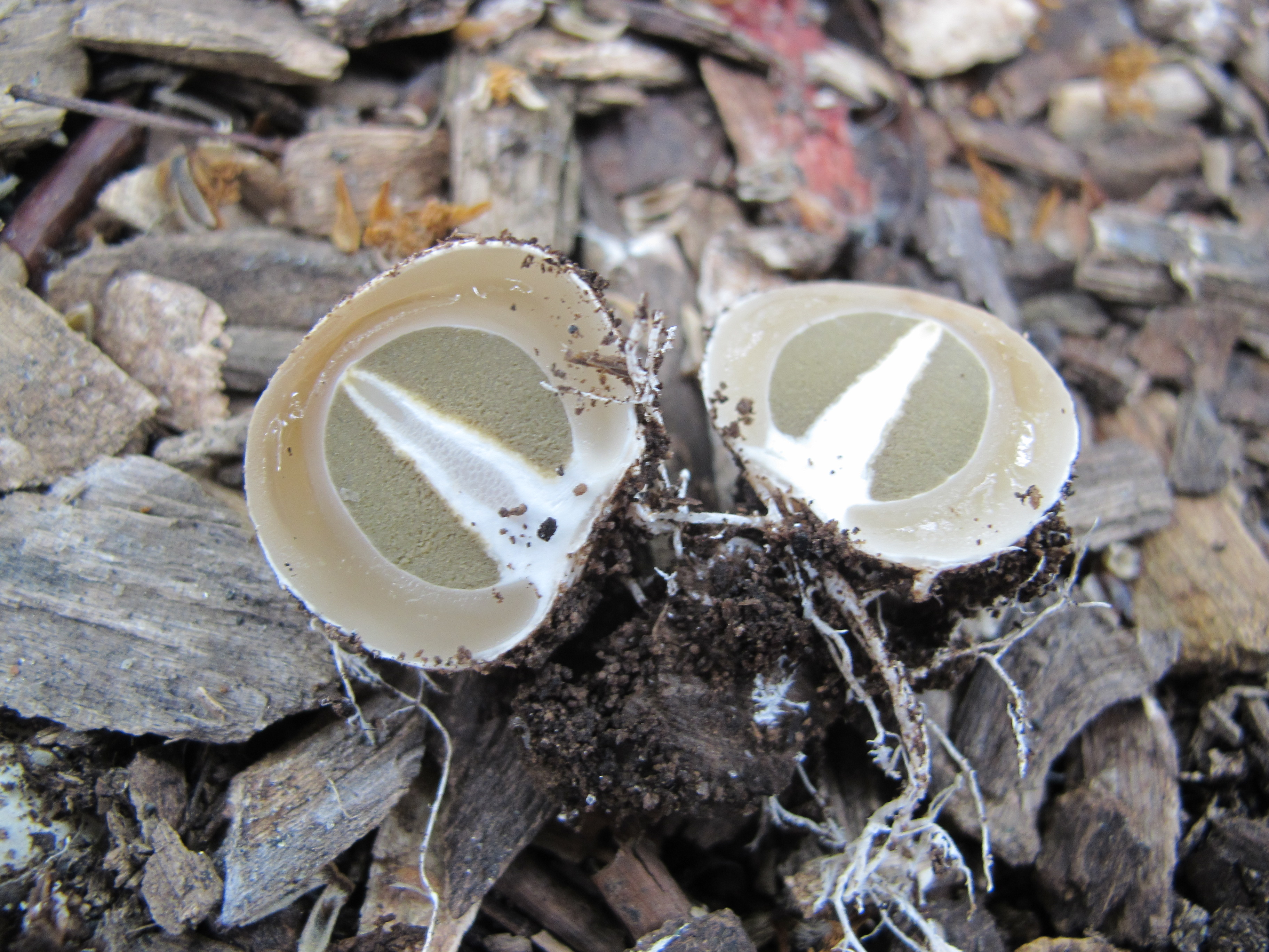 Bisected "egg" of the stinkhorn fungus Phallus rubicundus (Bosc) Fr. Photographed in Central Park, New York, New York, USA.